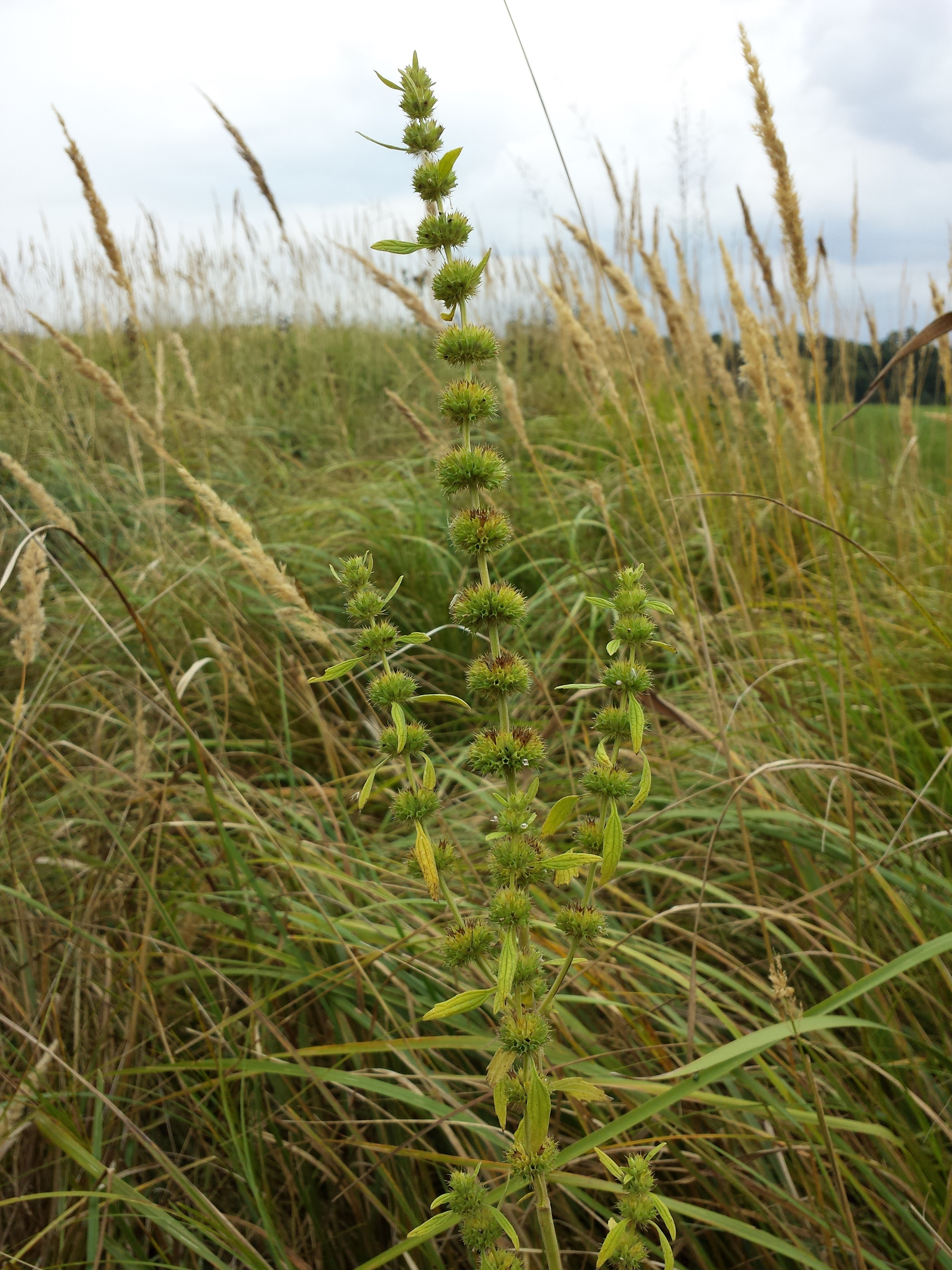 Inflorescence Taxonym: Leonurus marrubiastrum ss Fischer et al. EfÖLS 2008 ISBN 978-3-85474-187-9 (det. W. Adler 2015-09-05) Location: Erlwiesen Bernhardsthal, district Mistelbach, Lower Austria - ca. 160 m a.s.l. Habitat: wet meadow